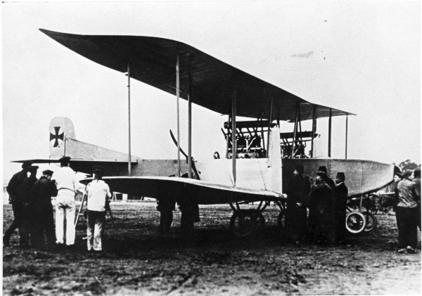 PictionID:43640553 - Catalog:16_004702 - Title: Rumpler 4A 15 prototype of the G.I Nowarra photo - Filename:16_004702.TIF - - - - - - - Image from the Ray Wagner Collection. Ray Wagner was Archivist at the San Diego Air and Space Museum for several years and is an author of several books on aviation --- ---Please Tag these images so that the information can be permanently stored with the digital file.---Repository: San Diego Air and Space Museum